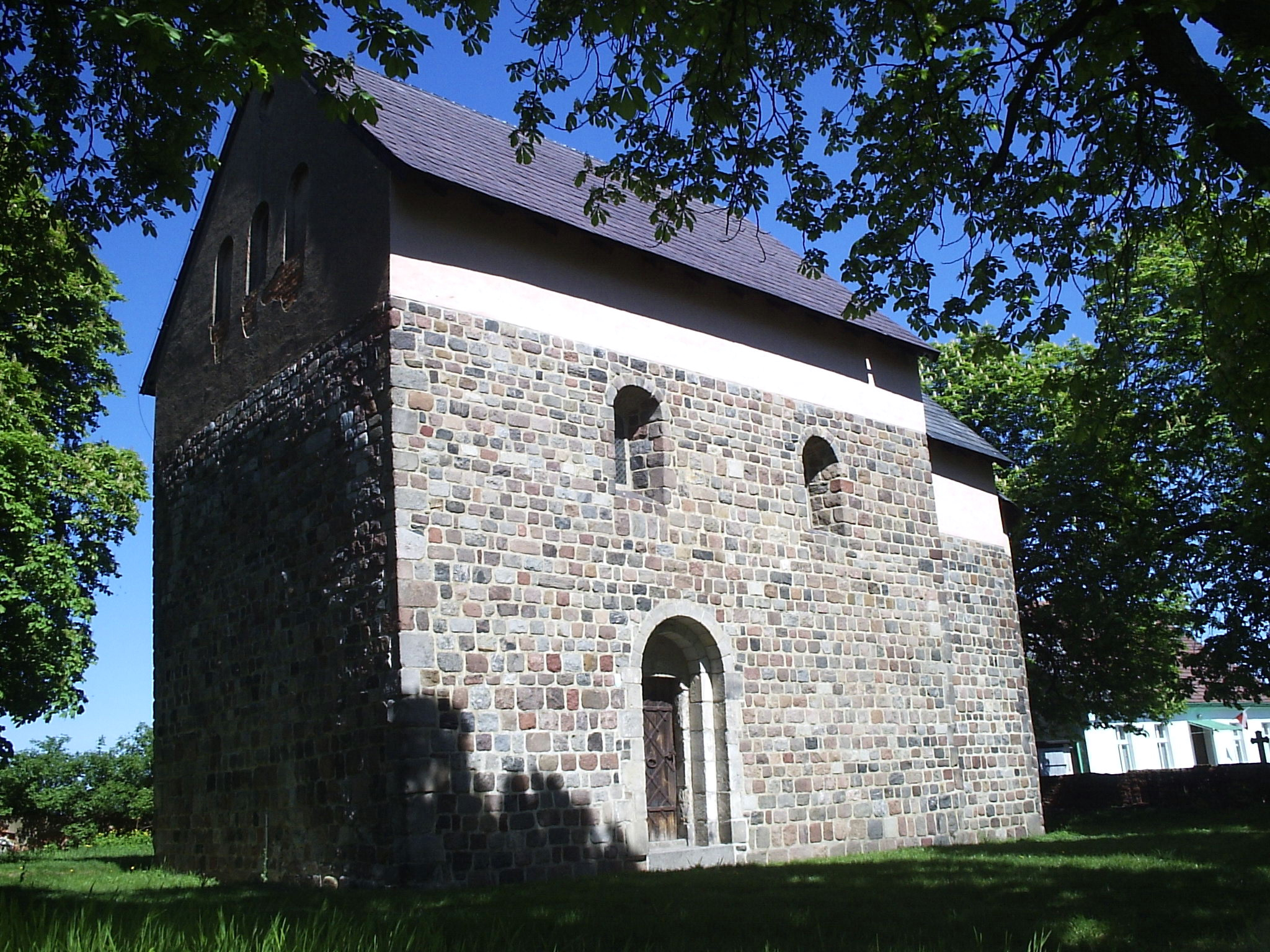 Church of St. Nicholas and Holly Virgin Mary in Giecz, Poland